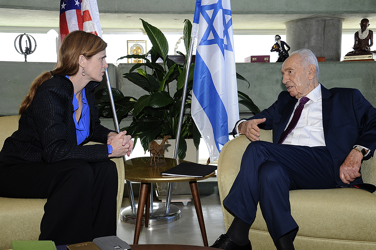 "From the Real UN to the Model UN" - U.S. Ambassador to the UN Samantha Power's visit to Israel.